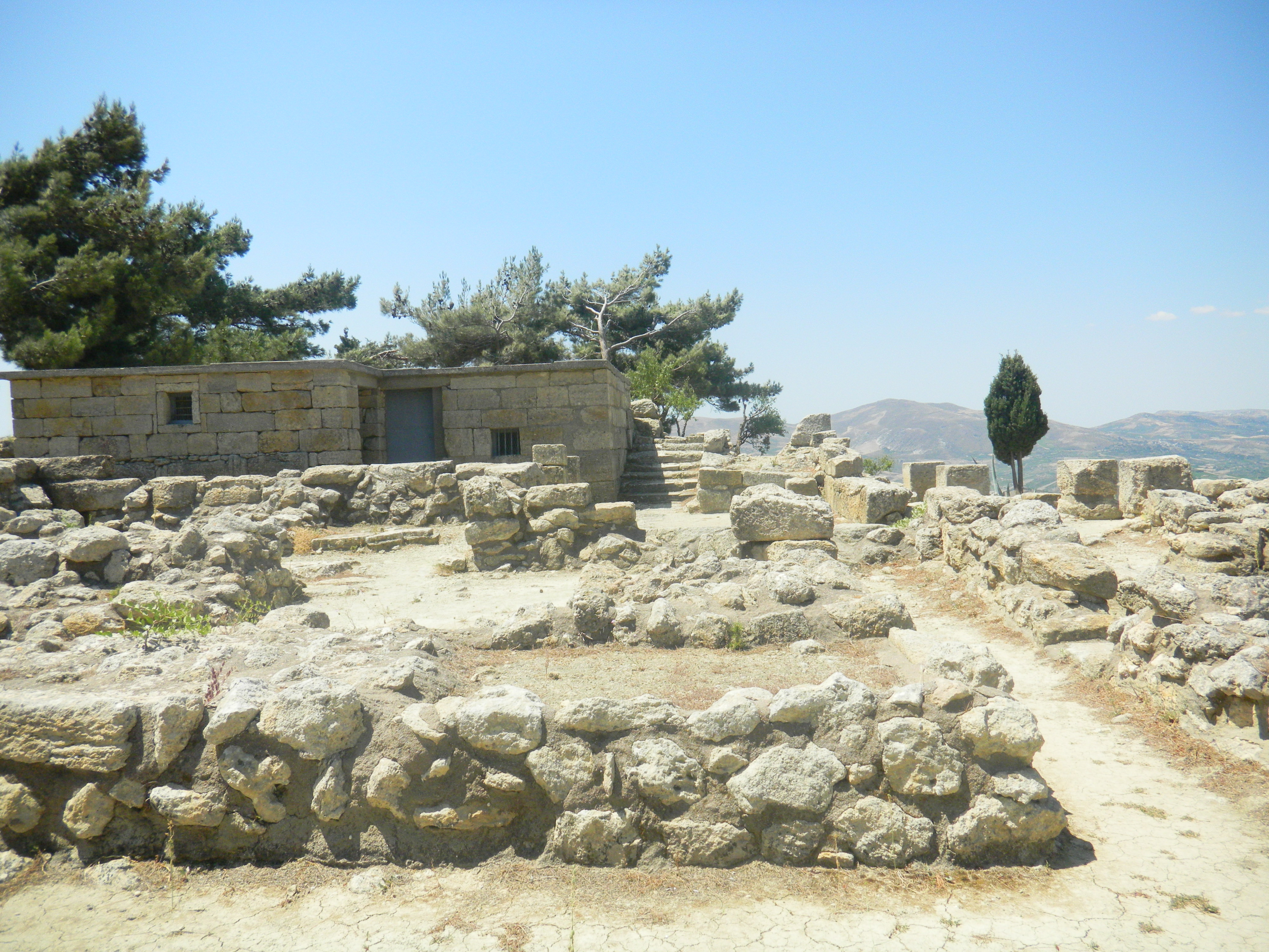 DSCN3905.JPG Vathypetro archaeological site, Crete, Greece